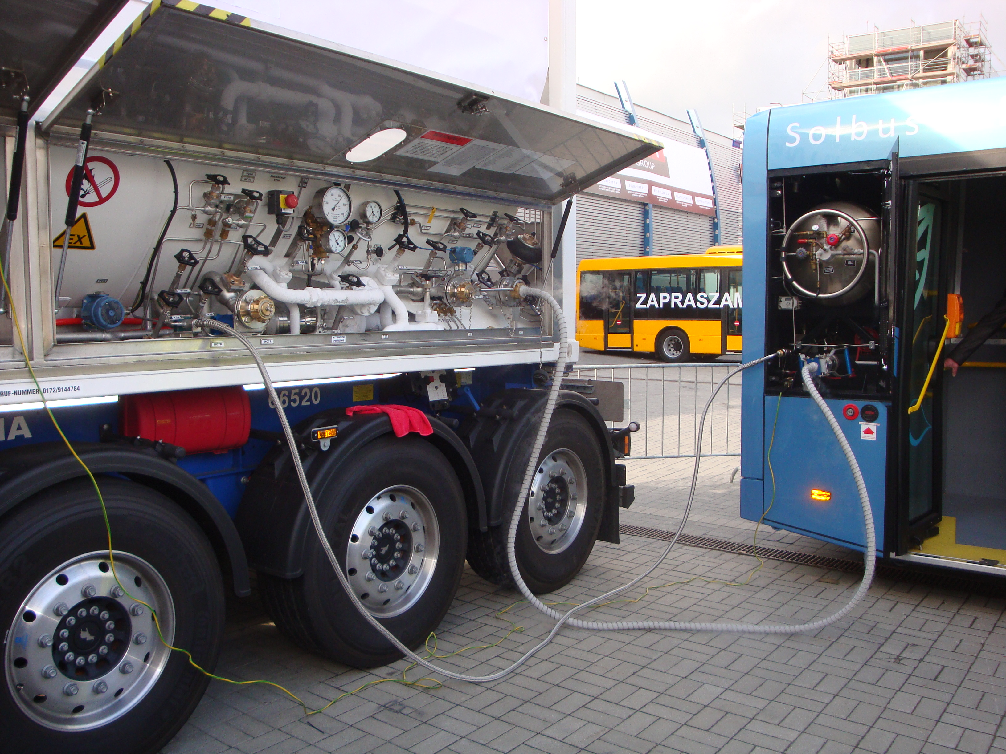 Solbus Solcity SM12 LNG city bus (reg. RLA 75WL) in Kielce, Poland. Transexpo 2012.